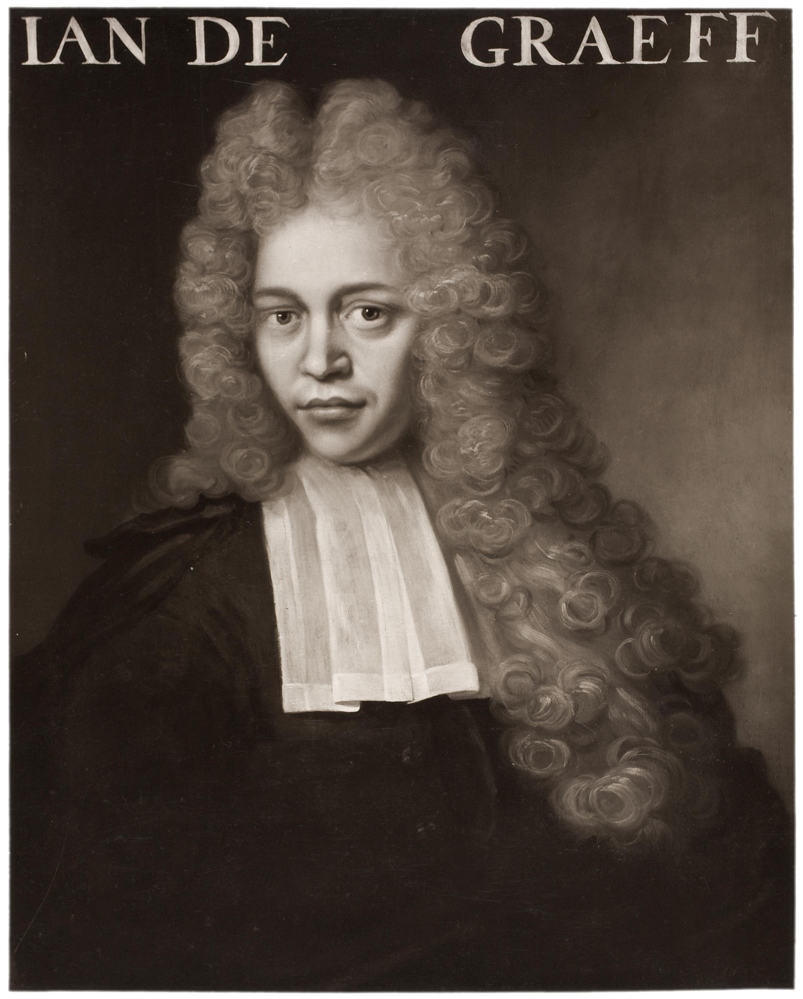 Portrait of Jan de Graeff (1673-1714)